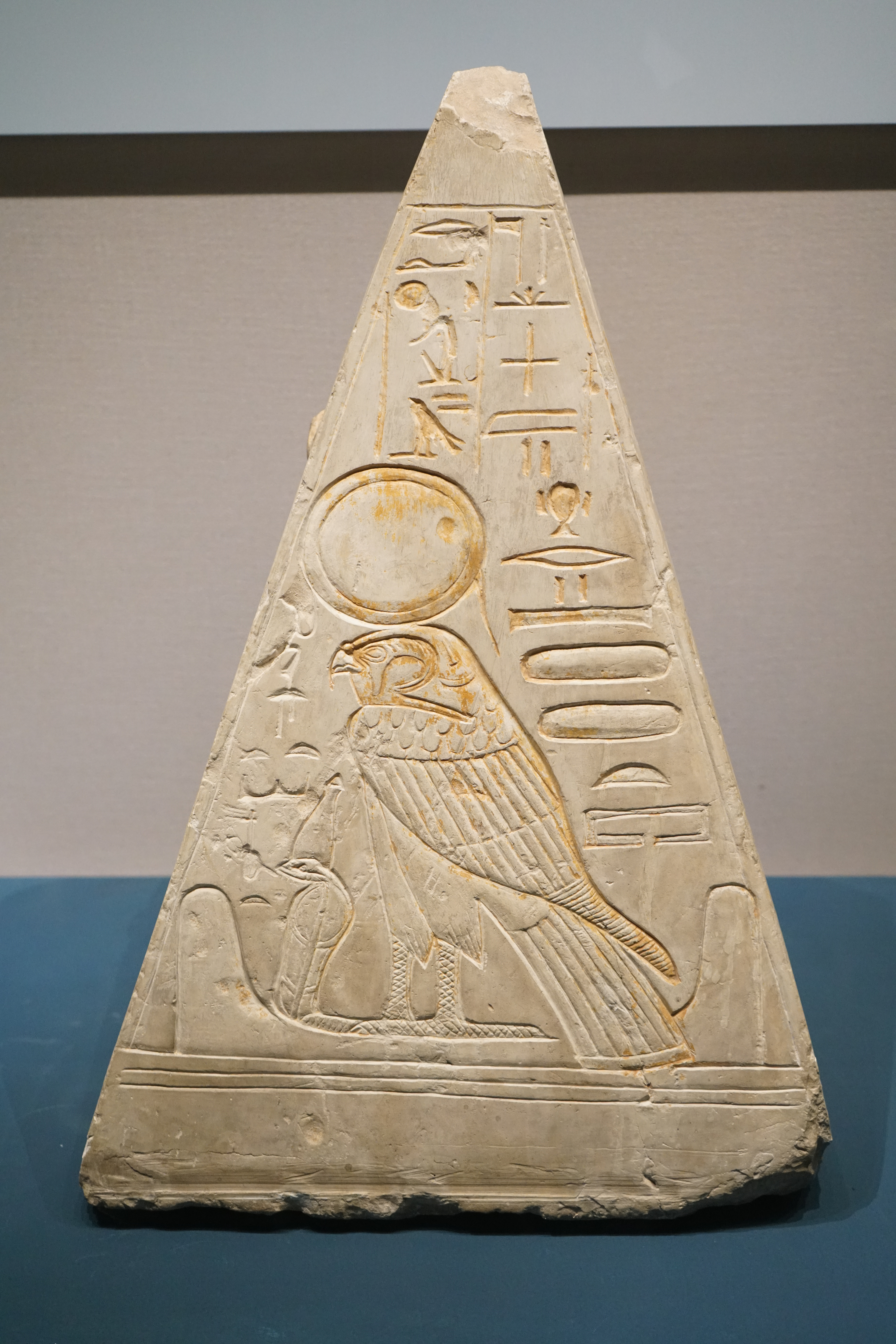 Pyramidion of Khonsu front view